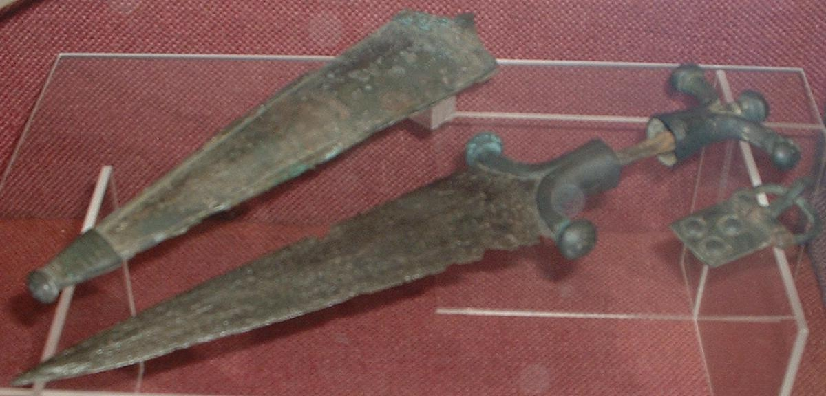 Celtic dagger, scabbard and a buckle.